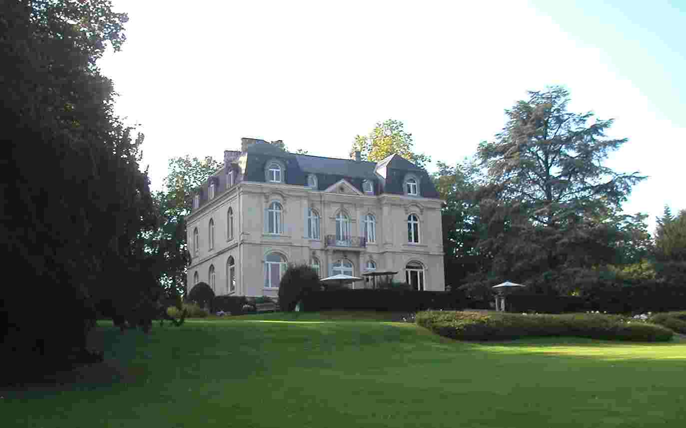 View of the New Chateau of Sint Agatha Rode taken with my camera.